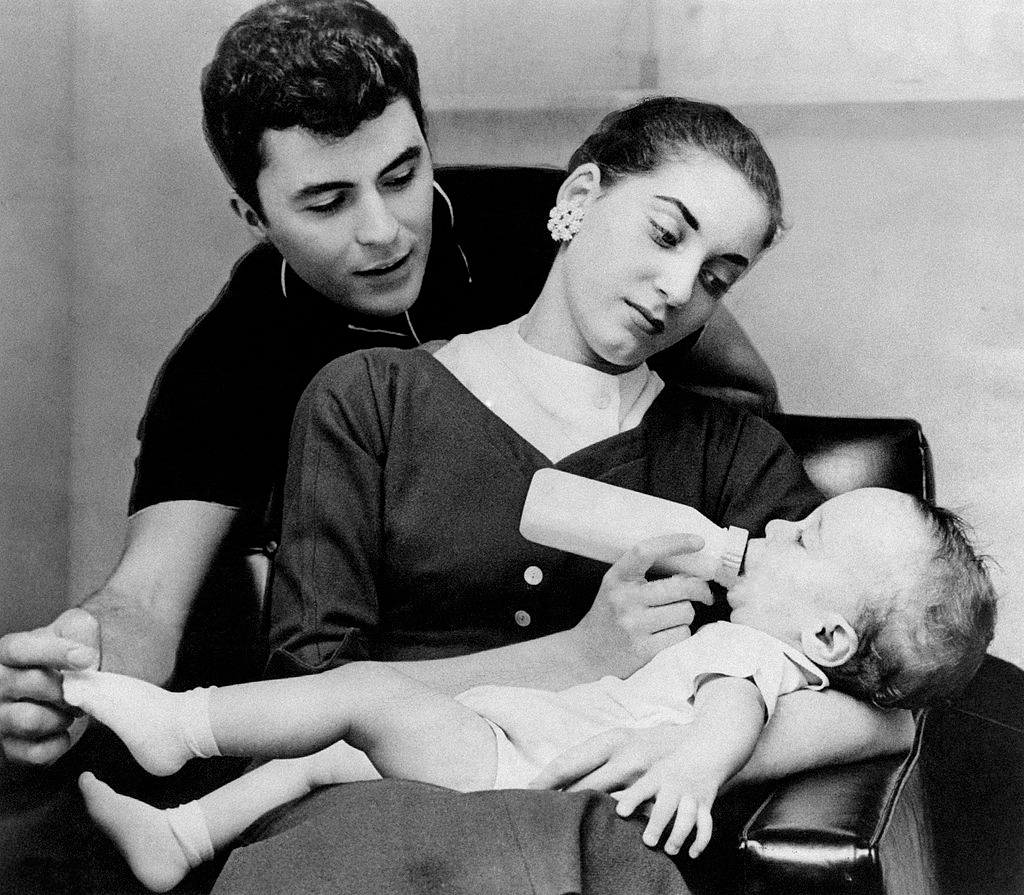 American actor and singer James Darren (James Ercolani) looking at his wife Gloria Terlitsky holding their son Jim Moret in her arms. 1950s.